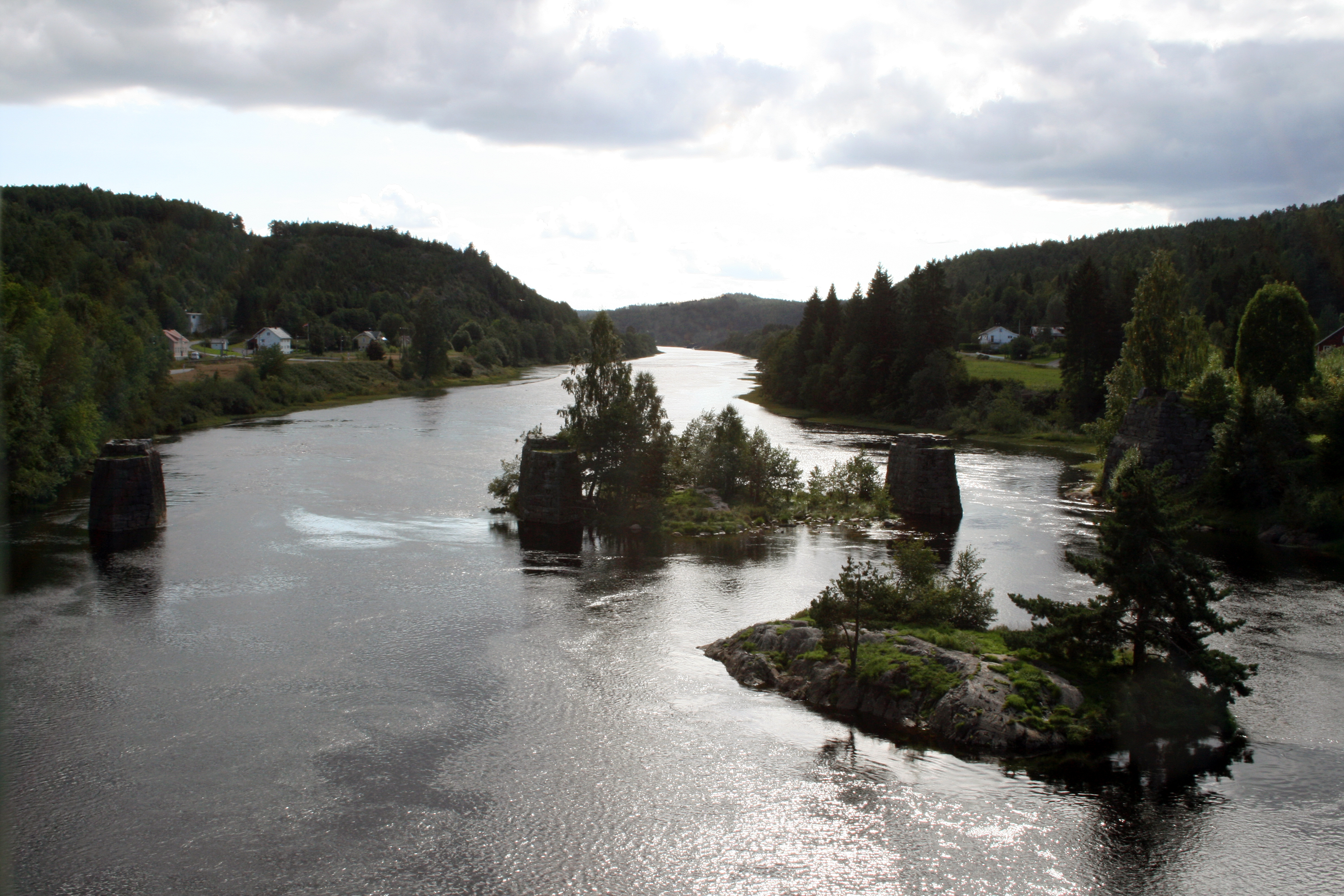 Nidelva river by Blakstad in Froland, Aust-Agder county.